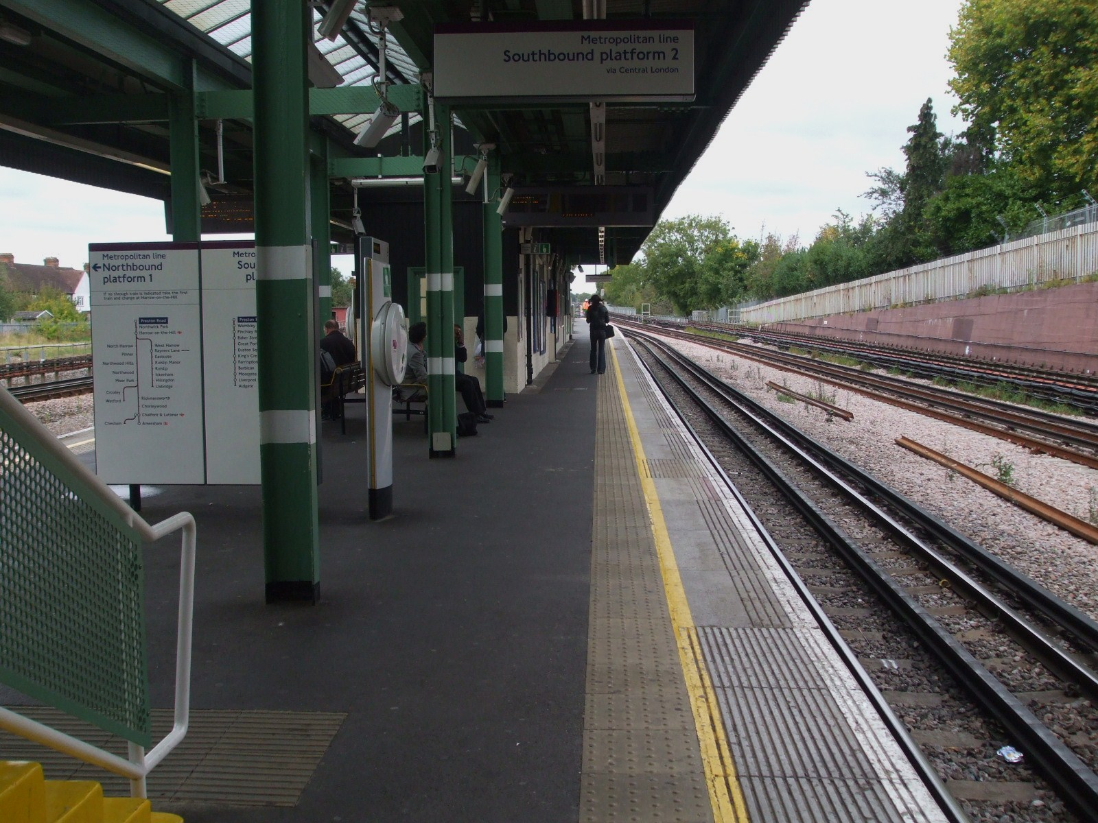 Preston Road tube station looking west. Fast track southbound on the right.